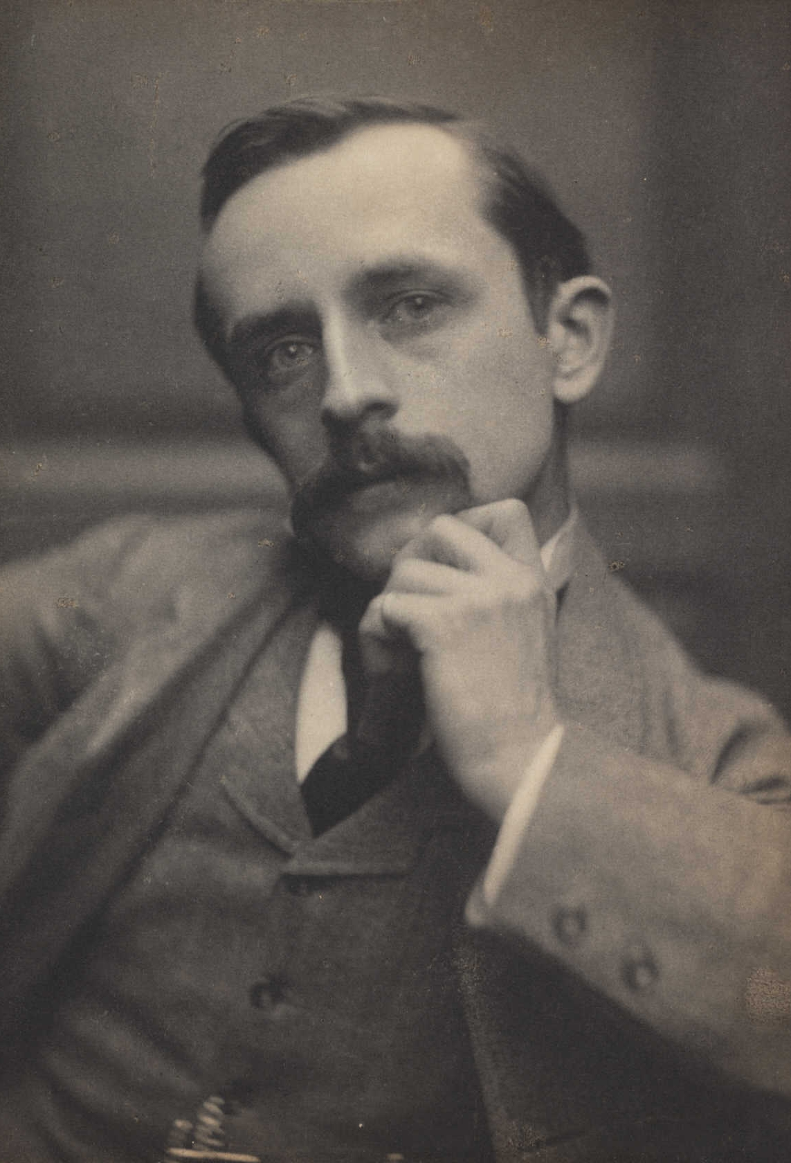 By Frederick Hollyer (1837-1933) Sir James Matthew Barrie (1860-1937) was a Scottish dramatist and novelist. In 1883, he began his writing career at the Nottingham Journal, soon emerging as a novelist and playwright. His most famous work is Peter Pan (1904), which was based on the children in Barrie's life - and on himself. Frederick Hollyer ran a successful business photographing works of art.He set aside one day a week for portraiture at his studio in Pembroke Square, Kensington, London. Over a period of thirty years, he photographed friends and acquaintances from artistic and literary circles.